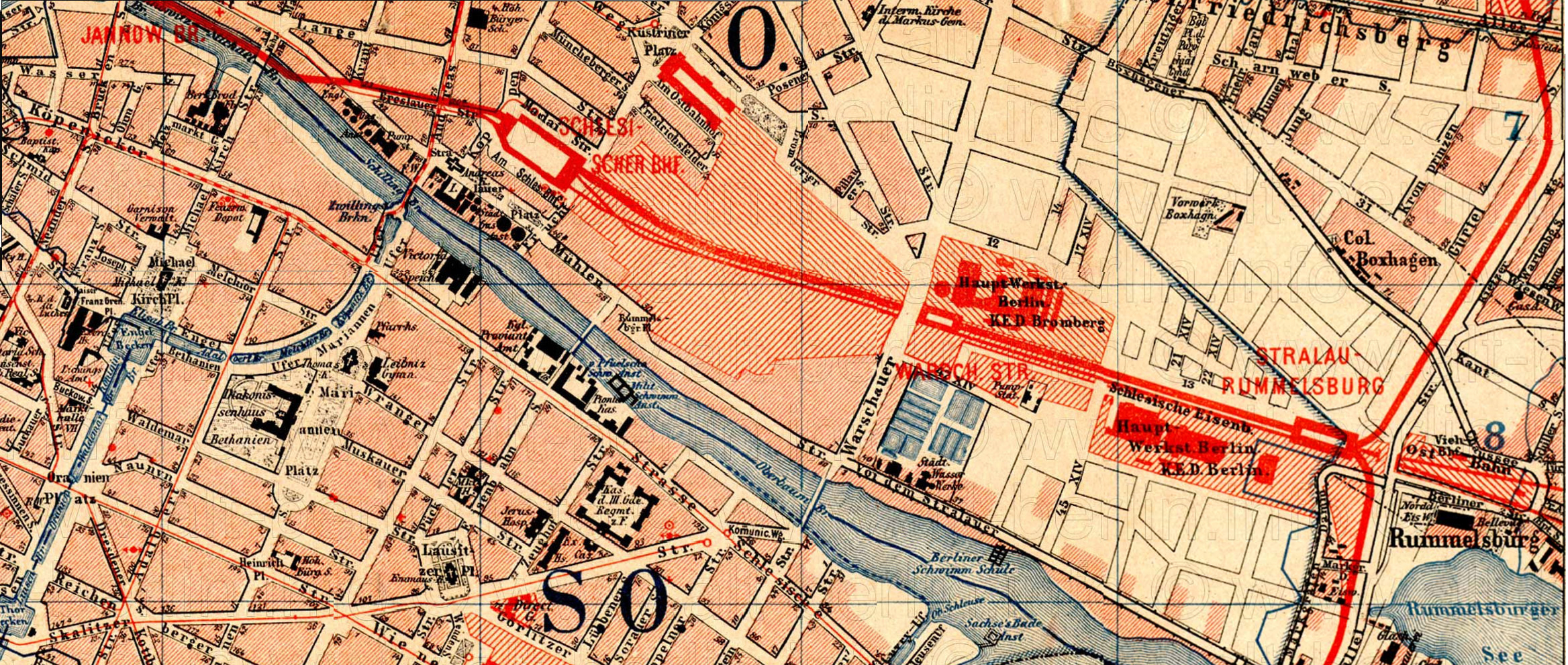 Map showing Schlesischer Bahnhof in Berlin, Germany